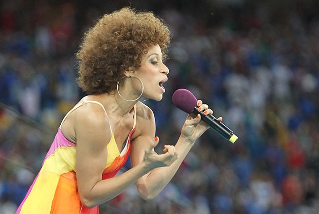 Oceana before Euro 2012 final Spain-Italy